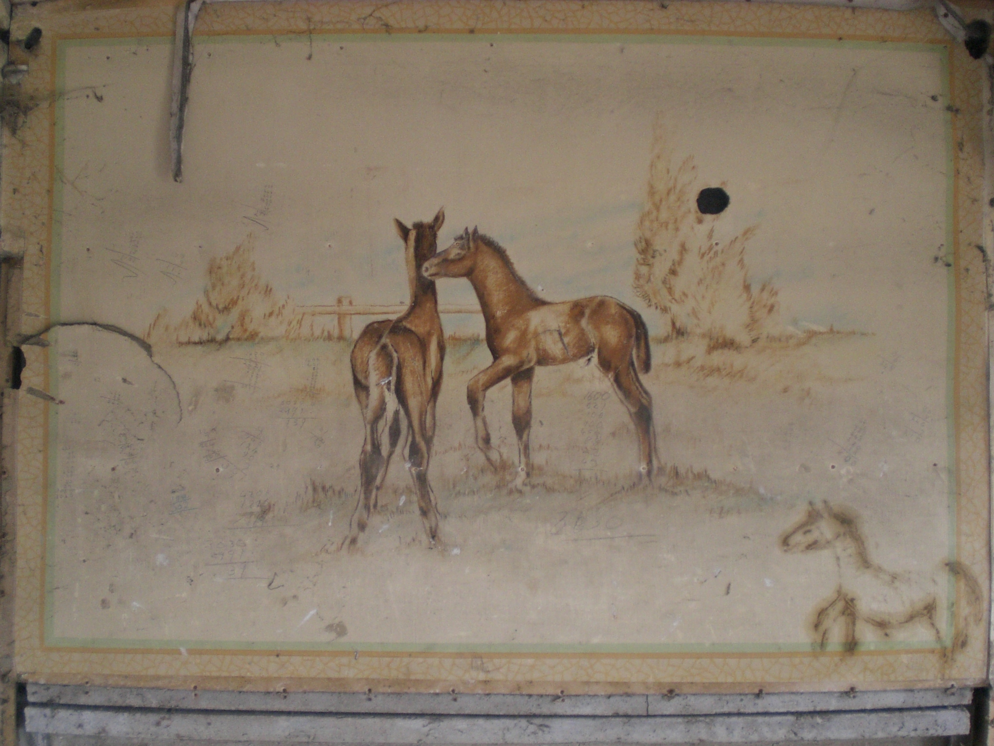 Surviving WWII PoW artwork in Harperley PoW Camp 93; image taken inside Kantine, Harperley PoW Camp 93, Fir Tree, Co Durham, England